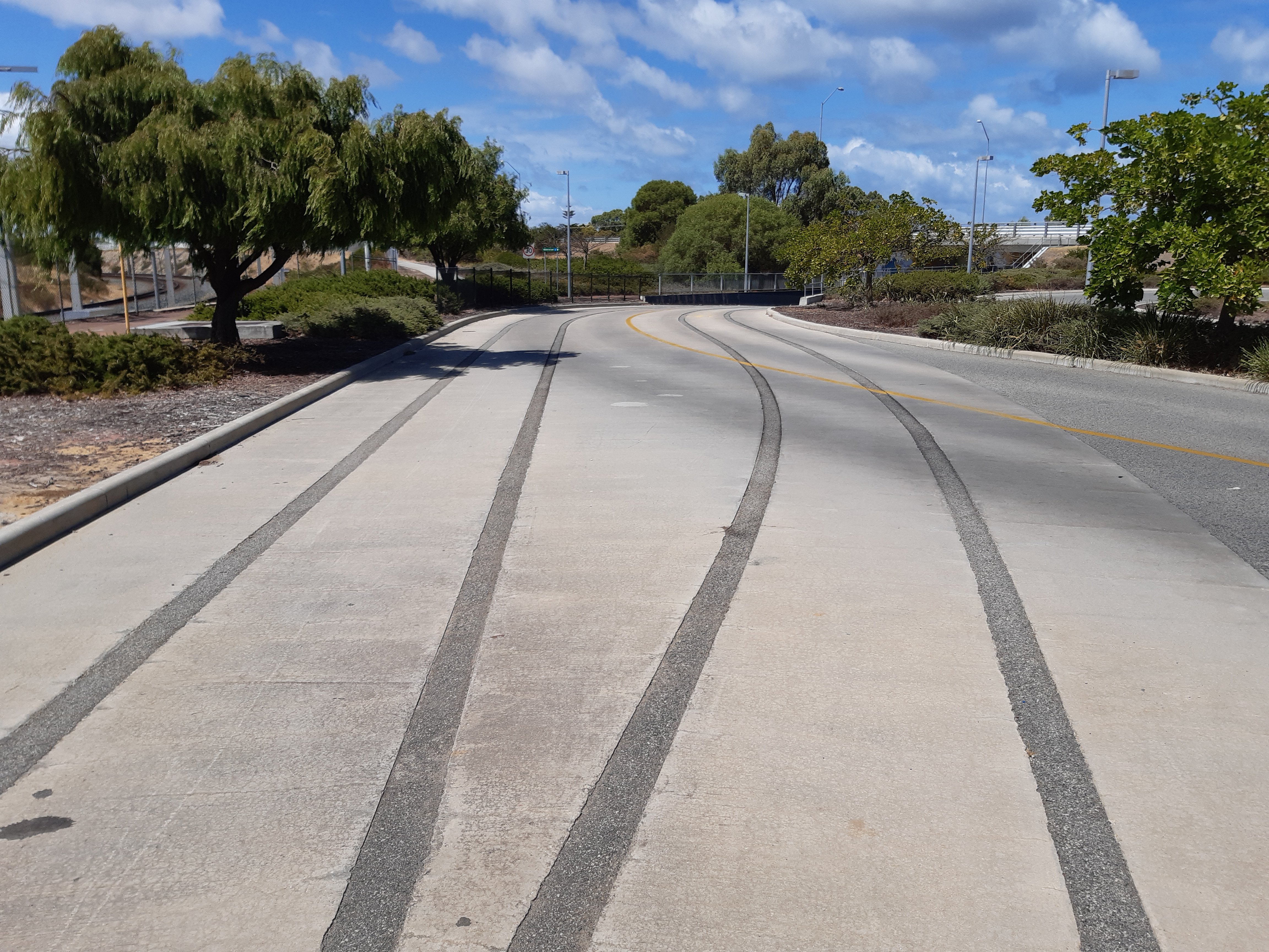 Rockingham light rail provisions at the Rockingham railway station, Western Australia. Evidence of the light rail, which was never constructed, can be seen in the bus way approach to the station, where provision for tracks can be seen. These would have accommodated rail inset into a concrete base. The light rail track would have ended at a platform near the western entrance of the station.